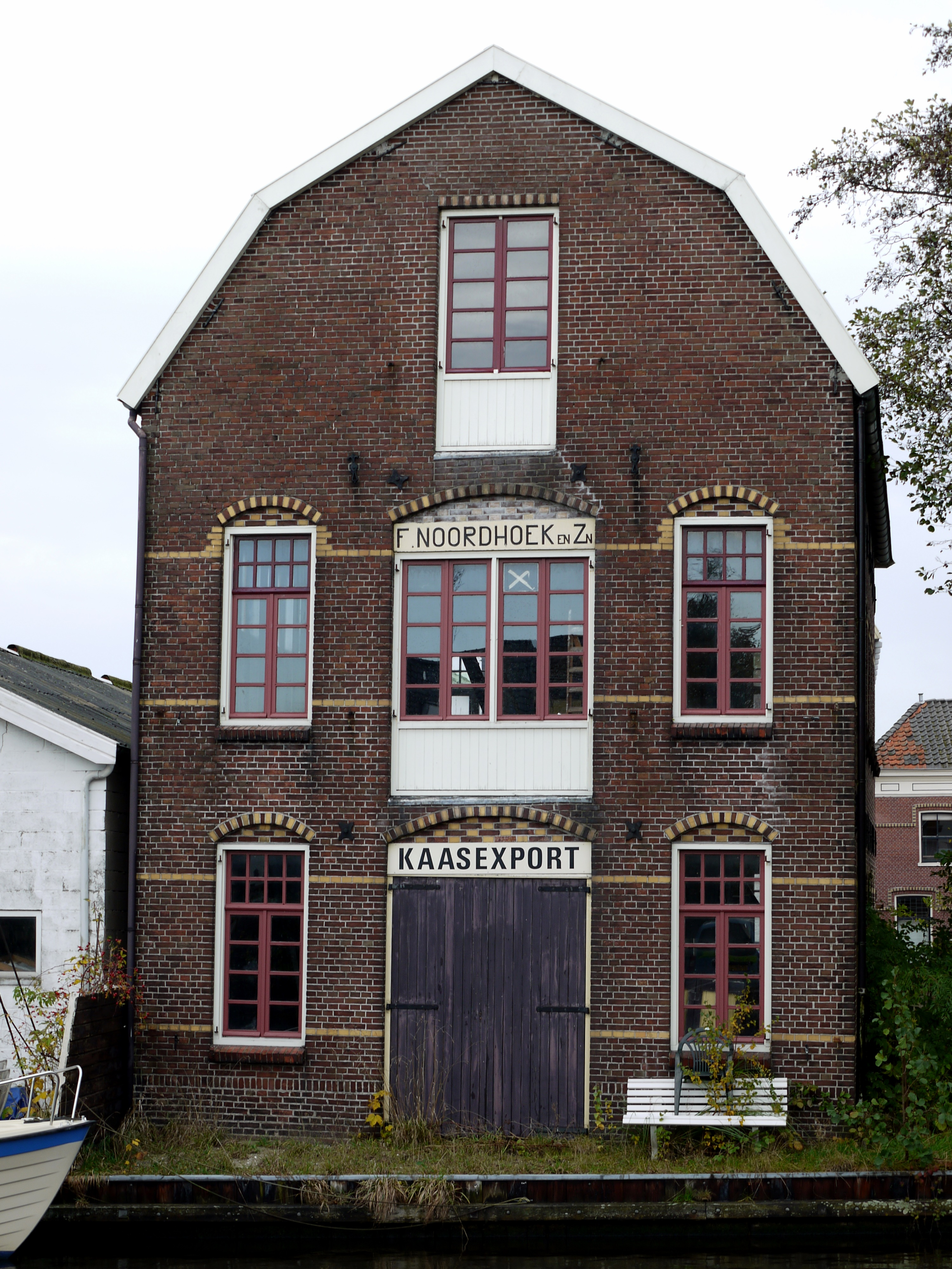 Noordhoek en Zn., a warehouse for chees storage at Kerkstraat 132, Bodegraven, the Netherlands. Built late 19th century. Its national-monument number is 511298.